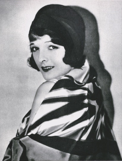 Marian Nixon